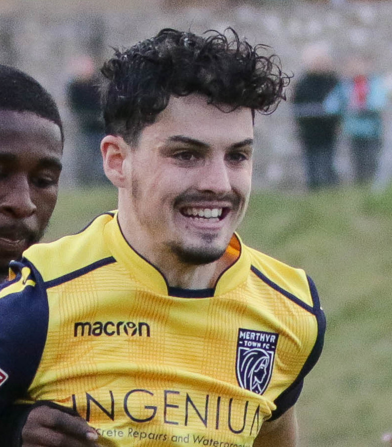 Owain Jones playing for Merthyr Town against Lewes in 2018